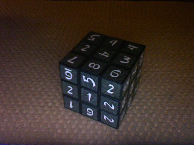 A picture of a Sudokube